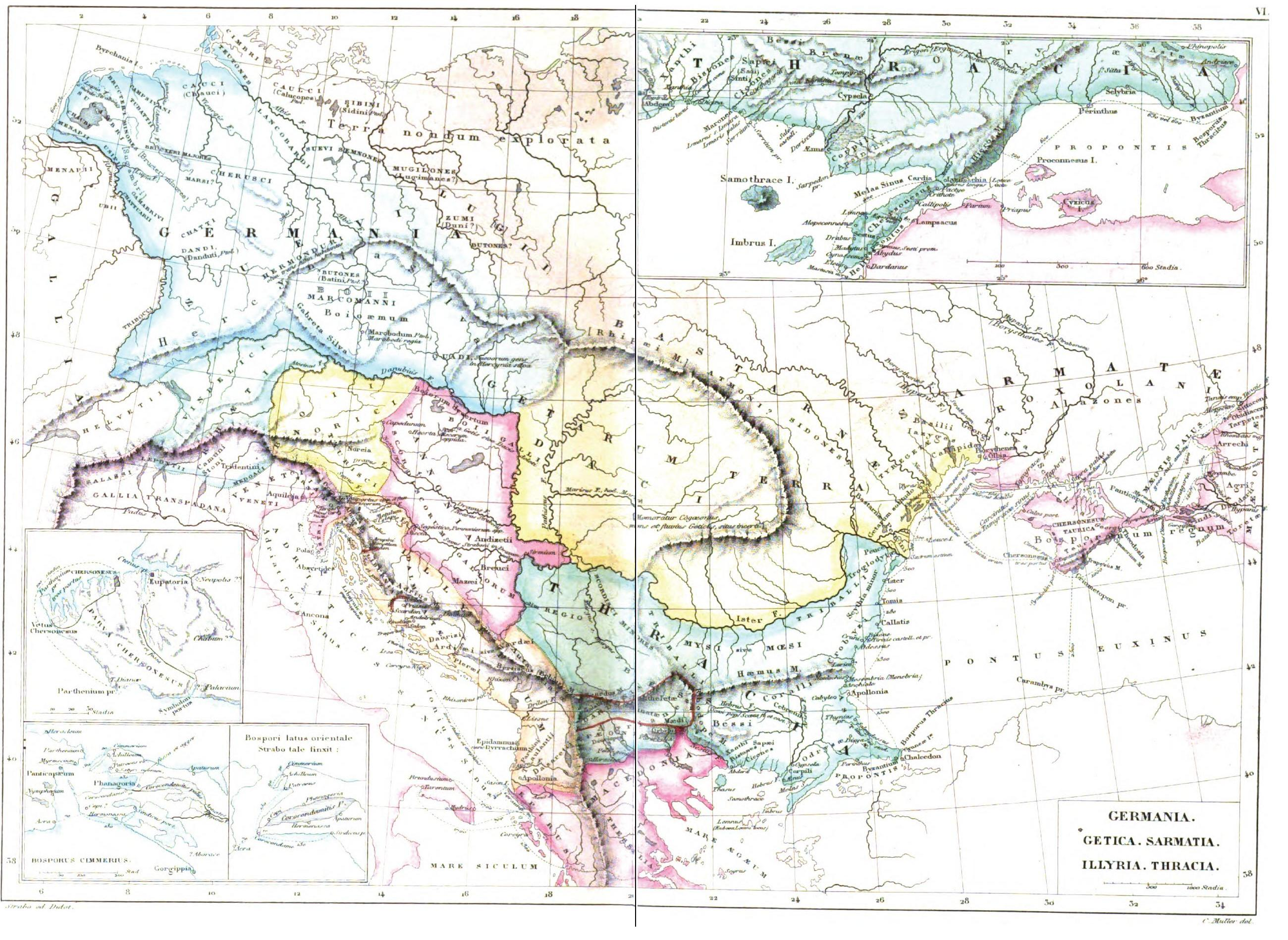 Map of Central and Eastern Europe at the time of Augustus (it is possible to recognize the Regnum of Maroboduo, king of Marcomanni in 6 AD), according to Strabo (c. 18 AD). It includes Dacia/Getica (Daci, Terra Getarum), Germania, Sarmatia, Illyria, Thracia.)